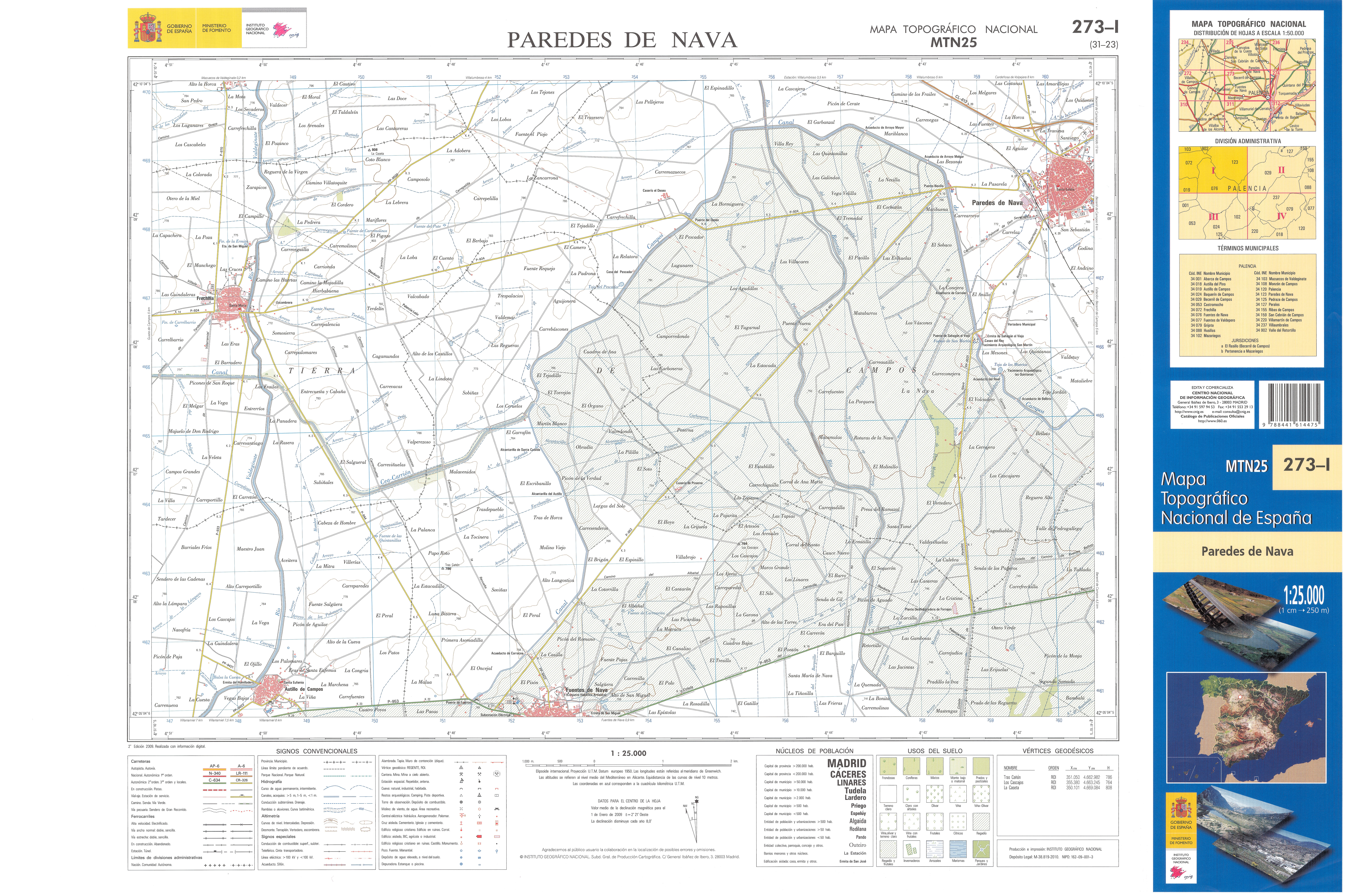 Fragment 0273c1 of the National Topographic Map of Spain in 2009 at a scale of 1:25000 printed and scanned with a resolution of 250 ppi. It shows Paredes de Nava.